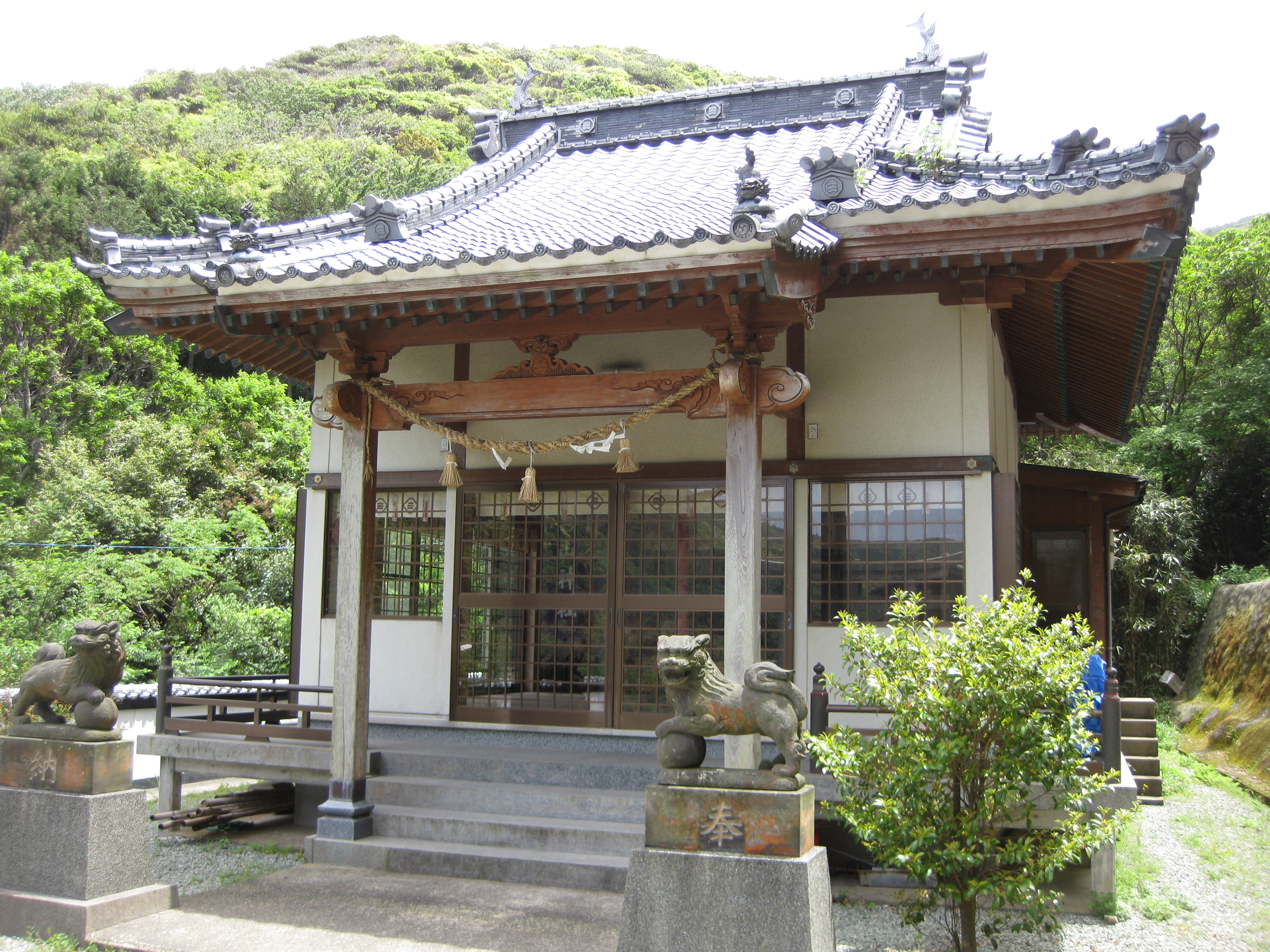 Yama jinja Haiden in Shinkamigoto, Nagasaki.